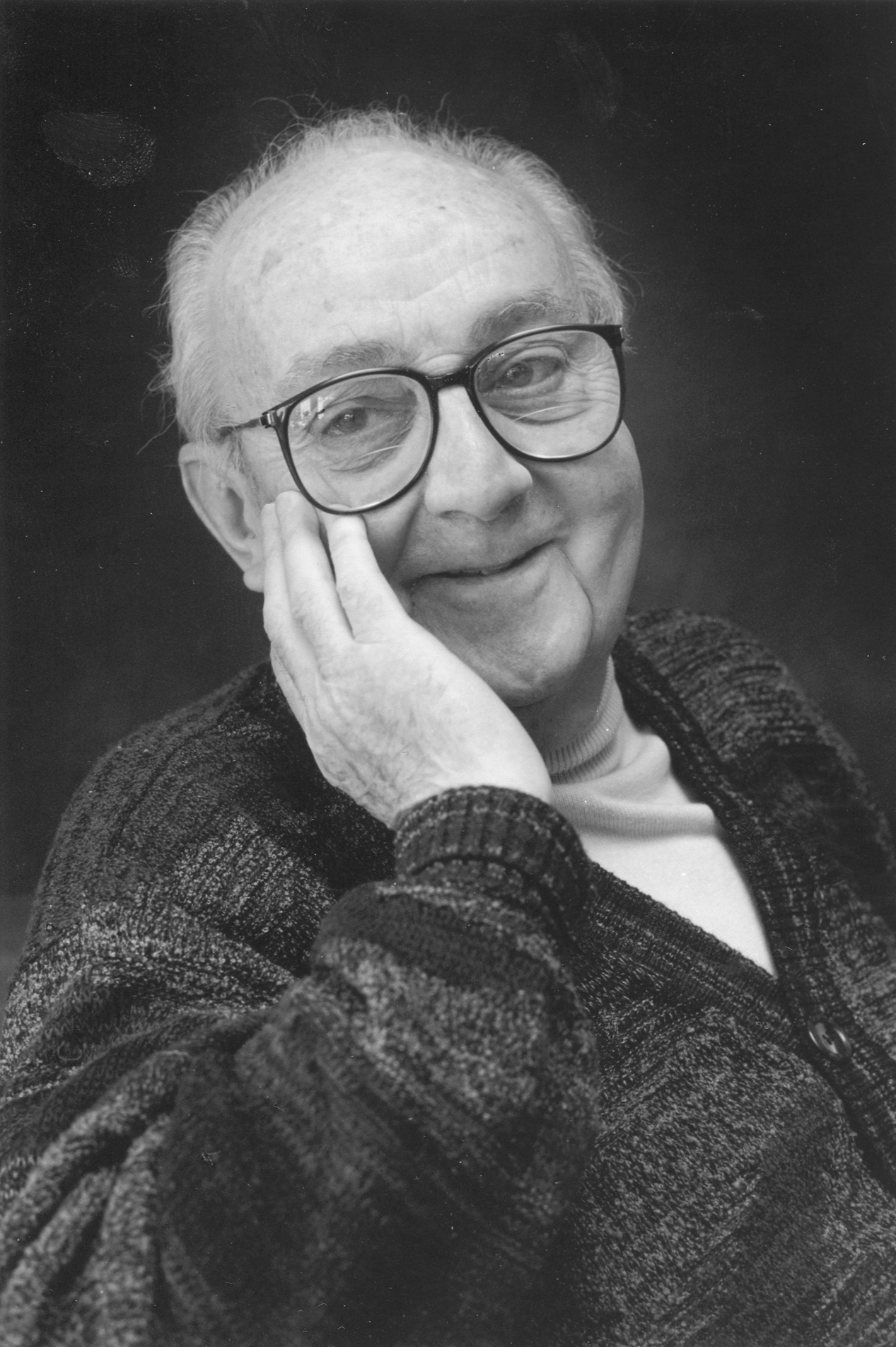 George Edward Pelham Box, Professor Emeritus of Statistics, University of Wisconsin-Madison